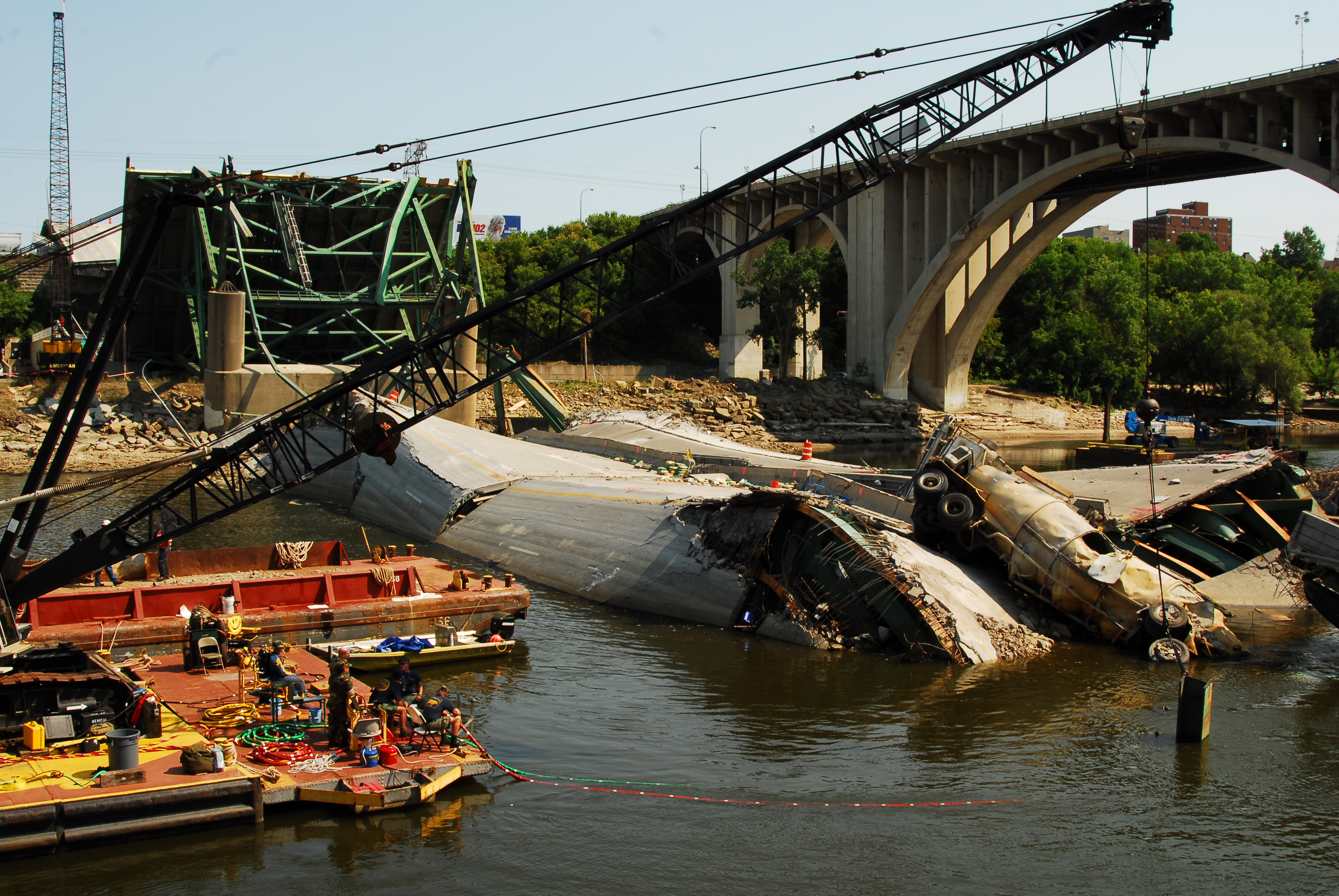 Navy divers attached to Mobile Diving and Salvage Unit 2 from Naval Amphibious Base Little Creek, Va., conduct operations from a U.S. Army Corps of Engineers Crane Barge at the site of the I-35 bridge collapse over the Mississippi River in Minneapolis, Aug. 17. MDSU-2 is assisting other federal, state, and local authorities in the recovery efforts at the site.